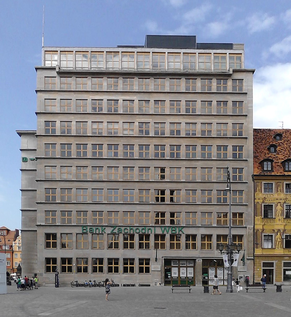 9/11 Market Square in Wrocław, Poland